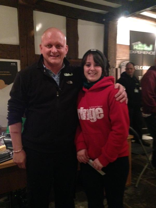 Stuart Torevell with a fan at a Most Haunted Experience event.